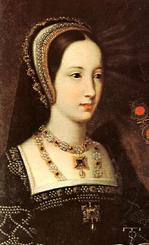 Portrait of Mary Tudor (detail)